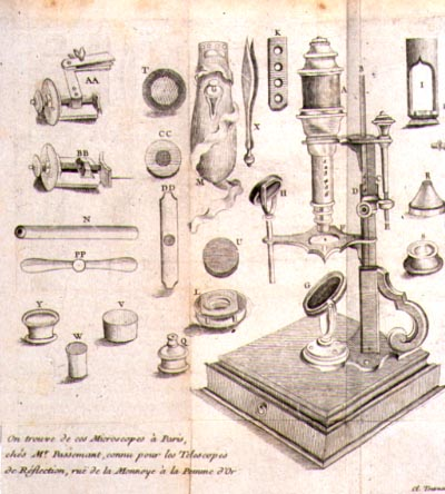 Cuff microscope 1750